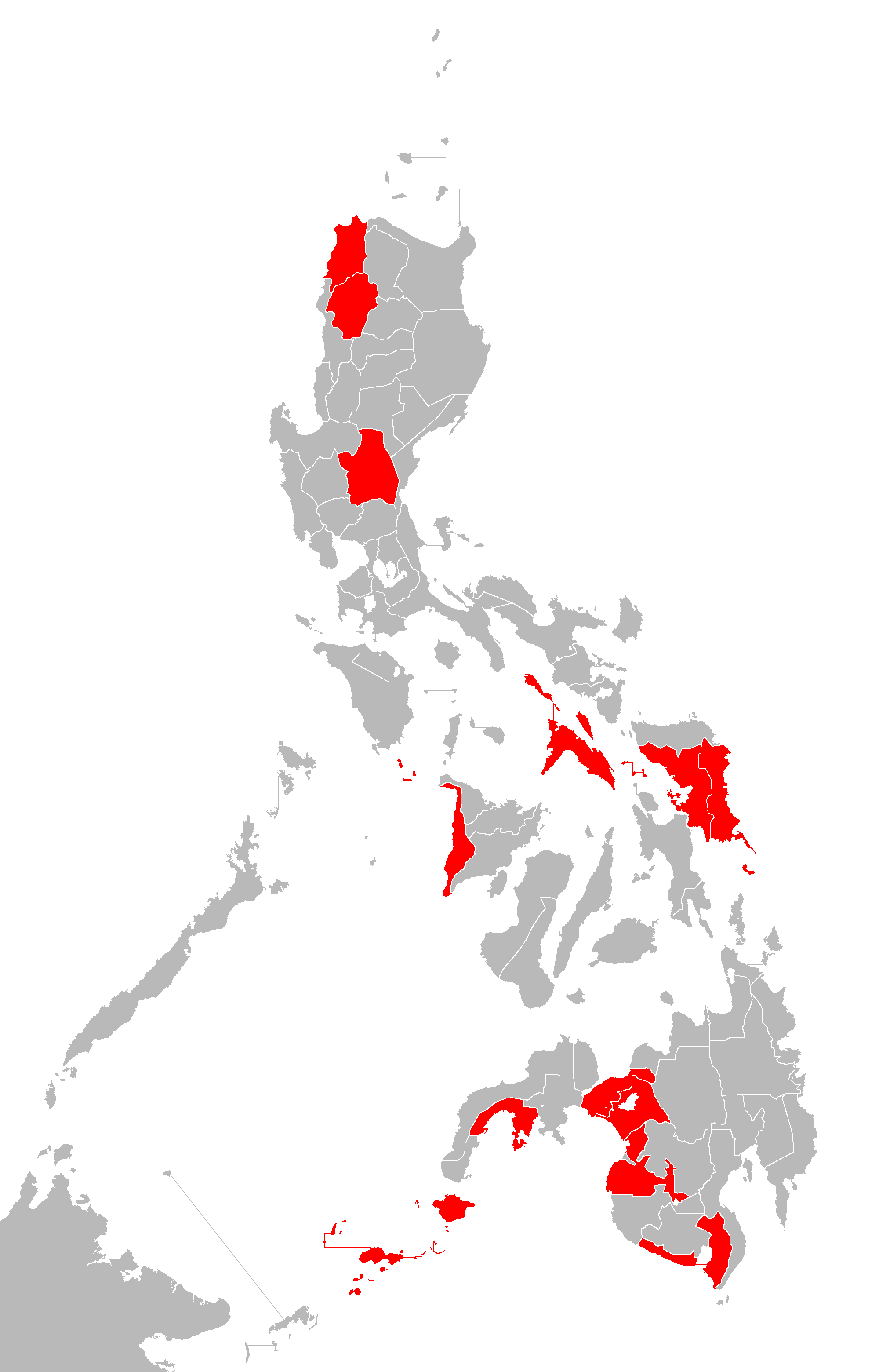 Election hotspots in the Philippine general election.